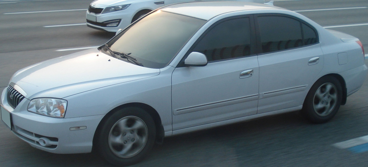 Hyundai New Avante XD